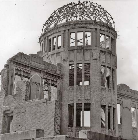 A-Bomb Dome close-up, Hiroshima, Hiroshima Prefecture, Japan.